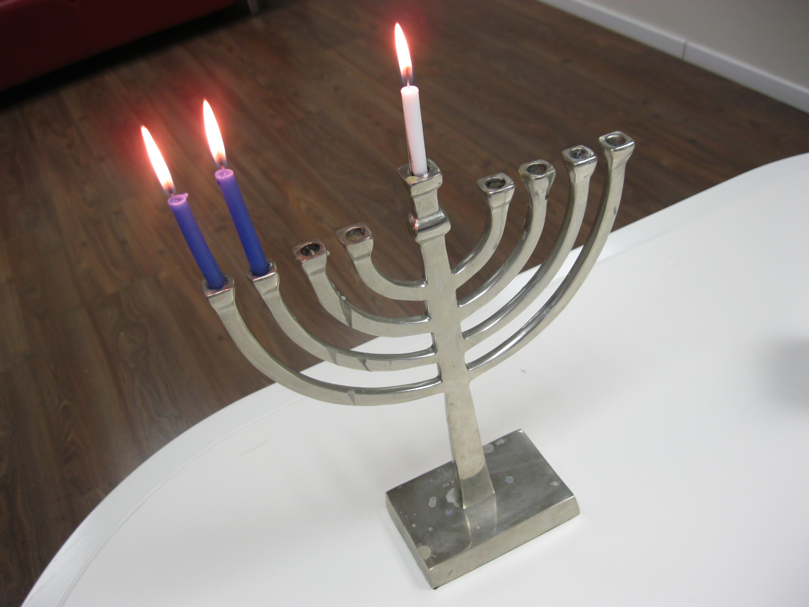 Hanukkah lamp